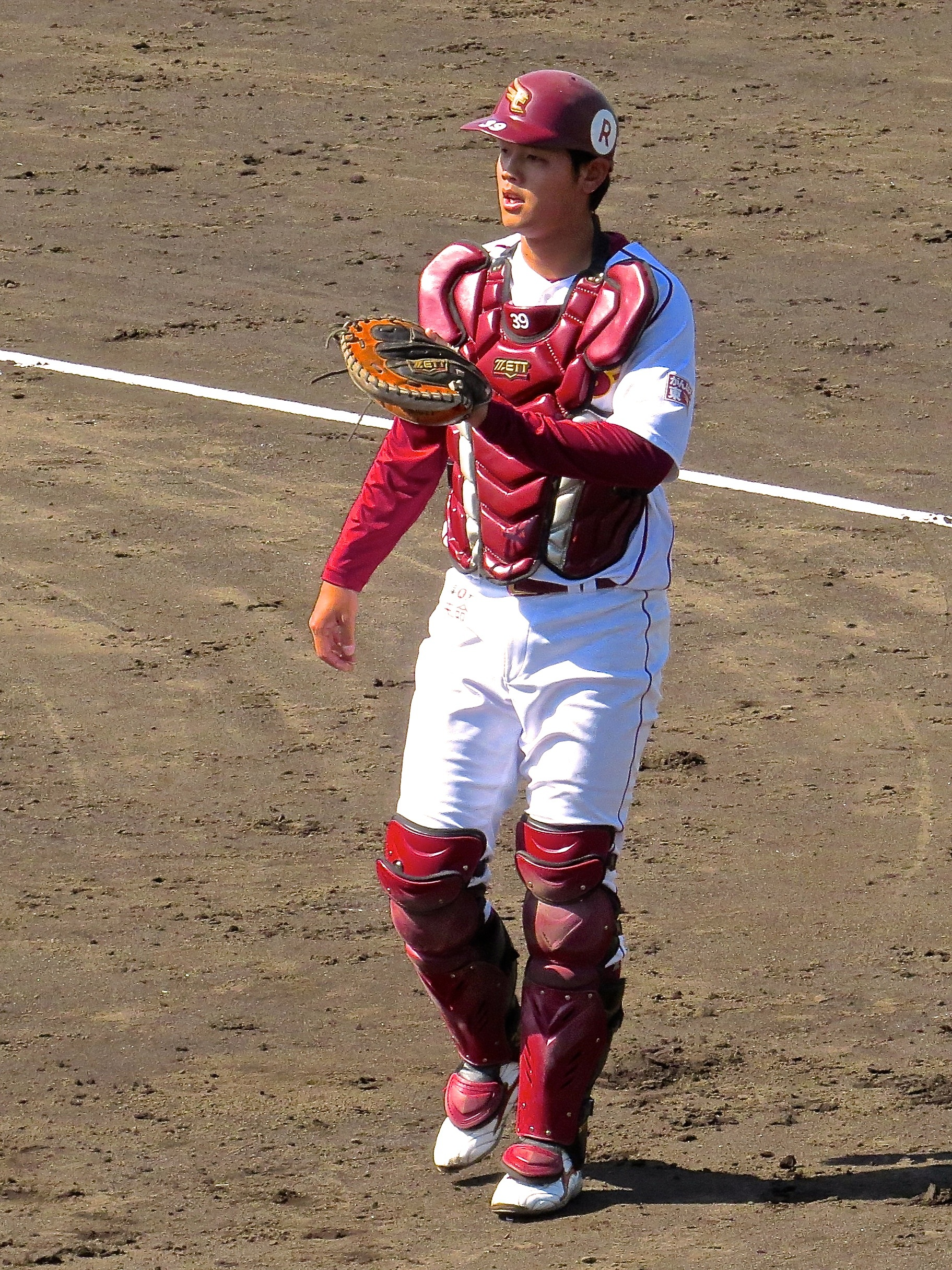 Takahiro Shimotsuma, catcher of the Tohoku Rakuten Golden Eagles, at Saitama Municipal Urawa Baseball Stadium